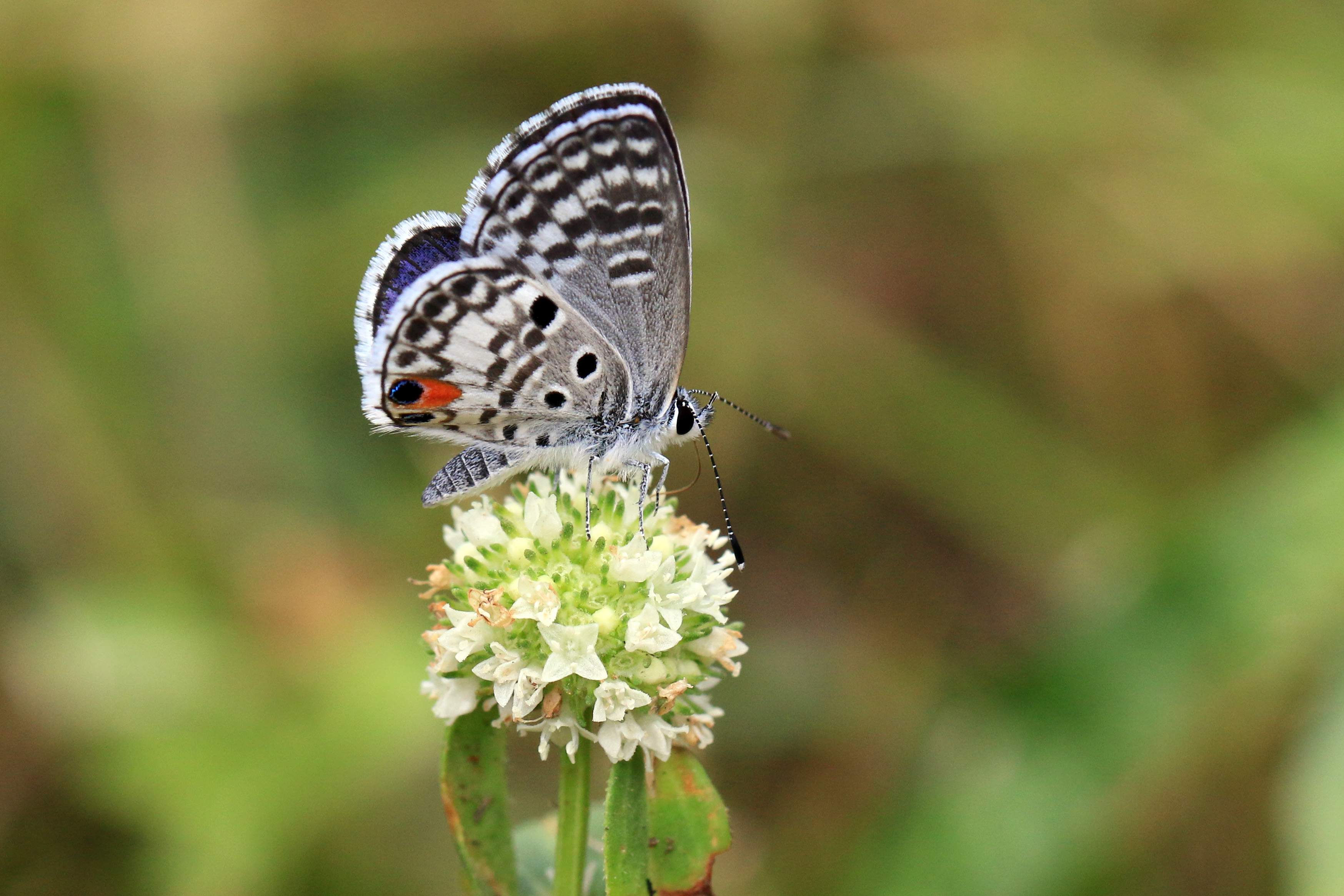 Lucas's blue (Cyclargus ammon erembis), Grand Cayman